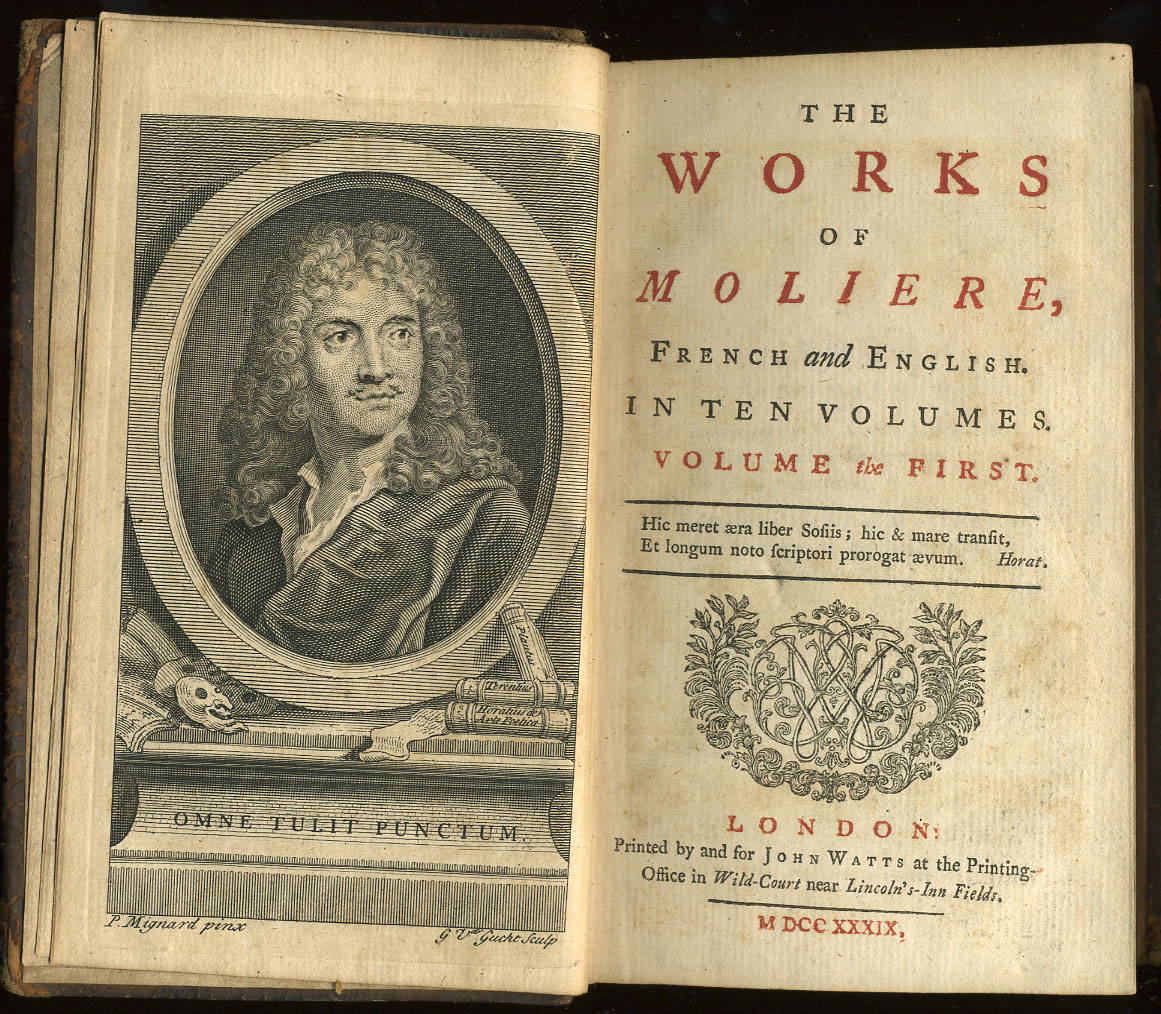 Frontispiece and titlepage from the first volume of Moliere's works translated into English printed by John Watts 1739.